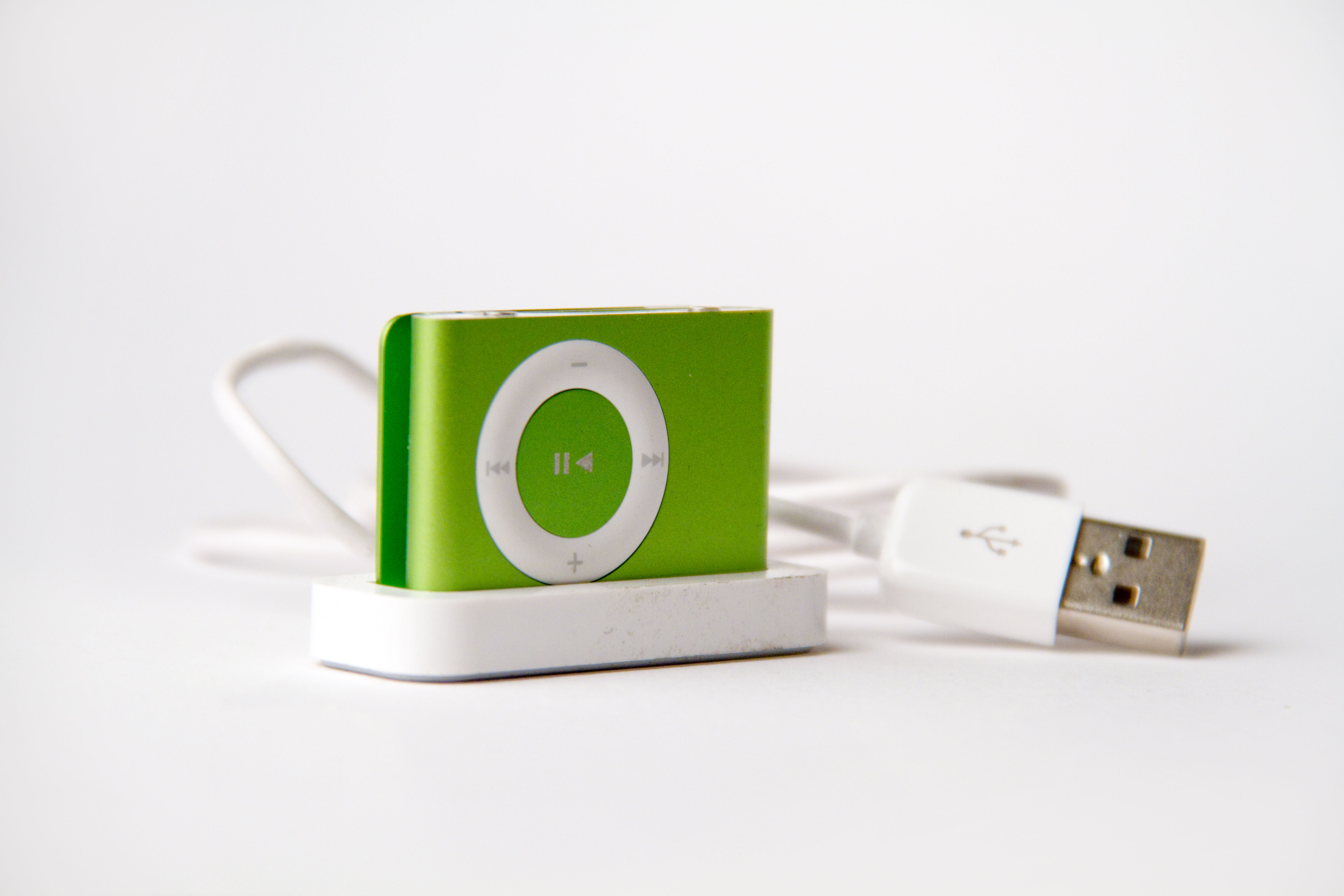 Apple iPod Shuffle second generation green